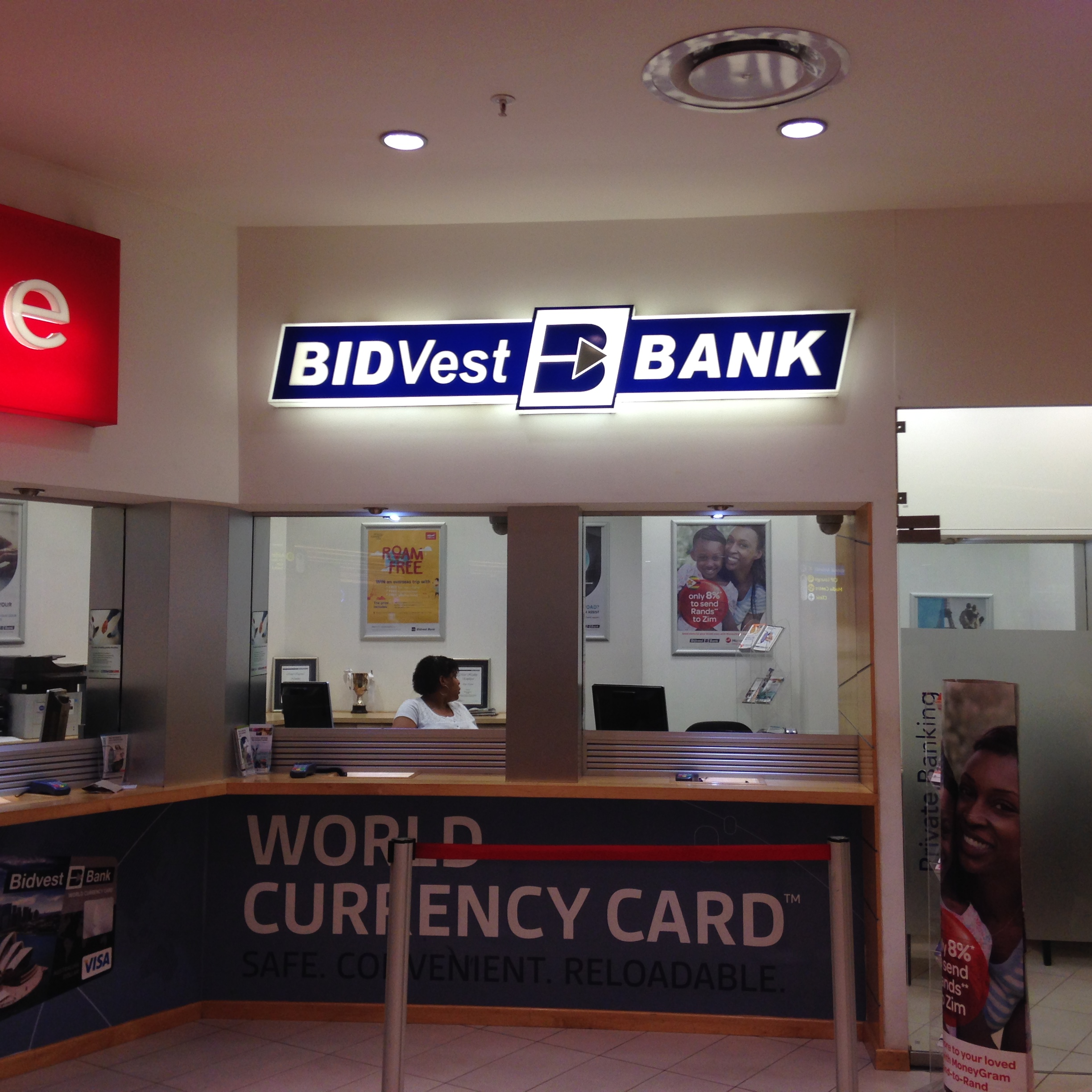 A Bidvest Bank branch in Cavendish Square Mall, Cape Town, South Africa.